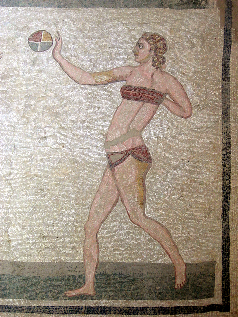 This is a modified version of the following picture: Image:Villa Del Casale Bikini.jpg, uploaded by Urban on 15:25, 27 August 2005